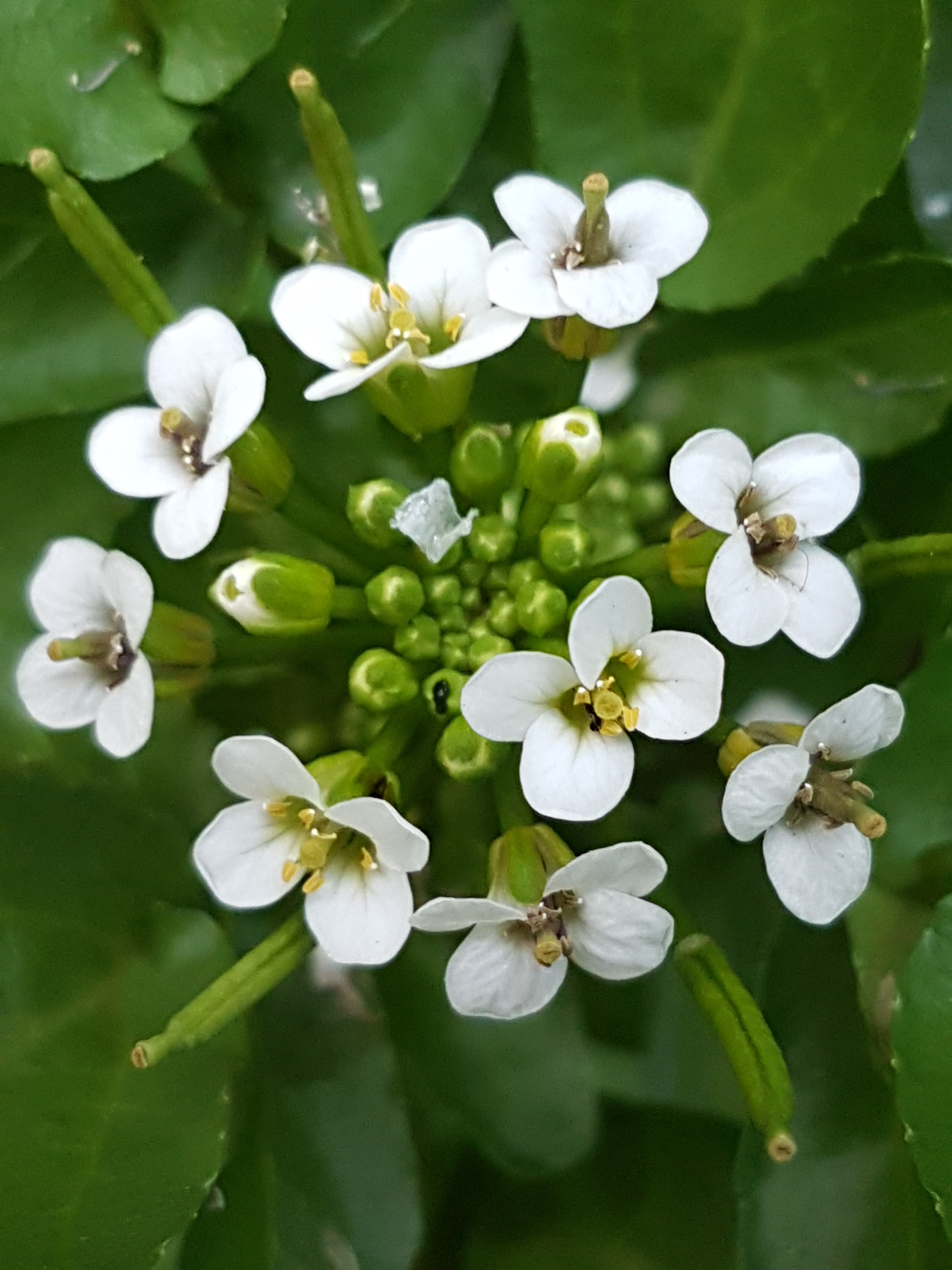 Nasturtium officinale W.T. Aiton - cultivated at Honeydew, Gauteng, South Africa